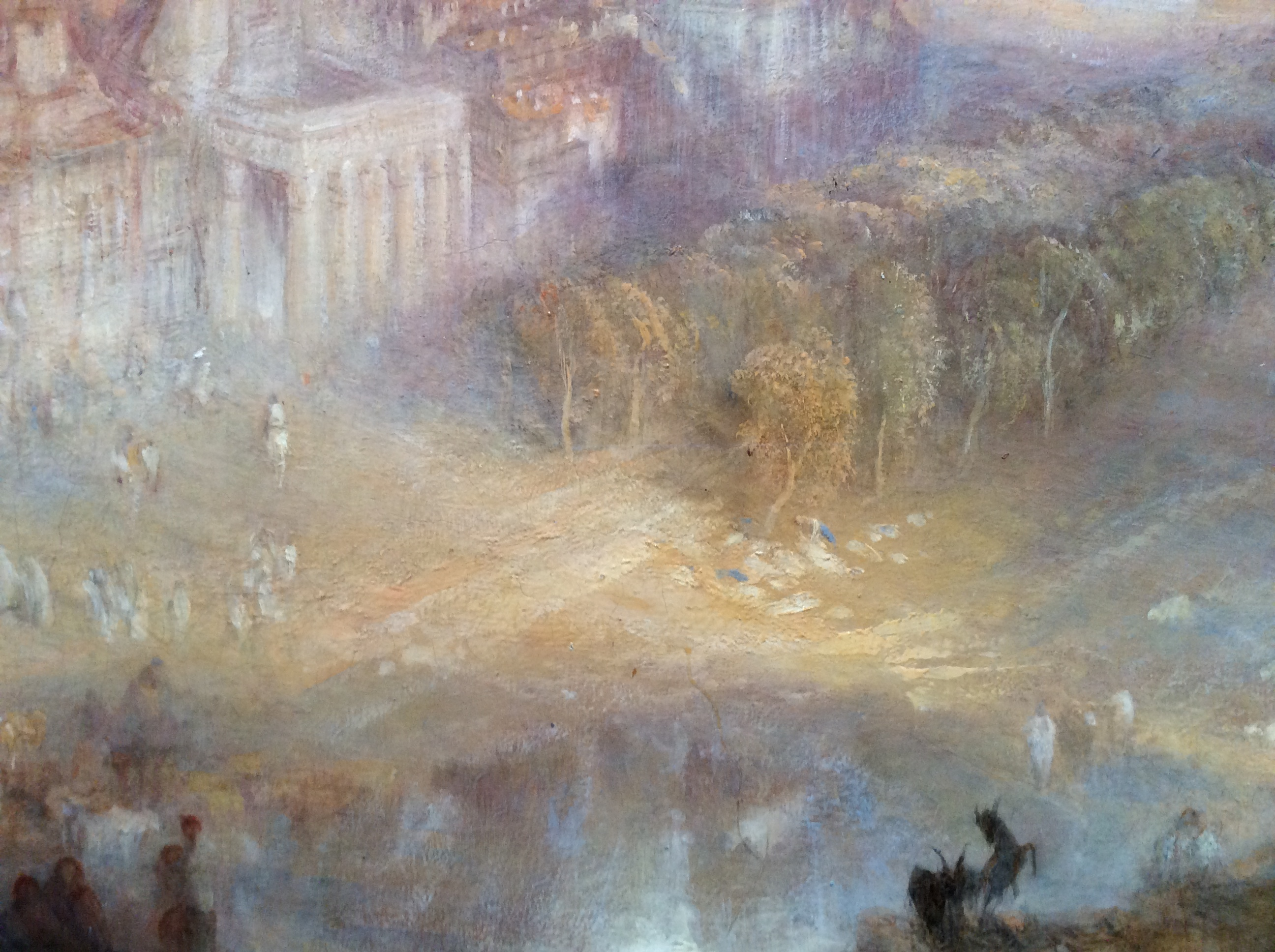 Detail of Joseph Mallord William Turner, Modern Rome-Campo Vaccino